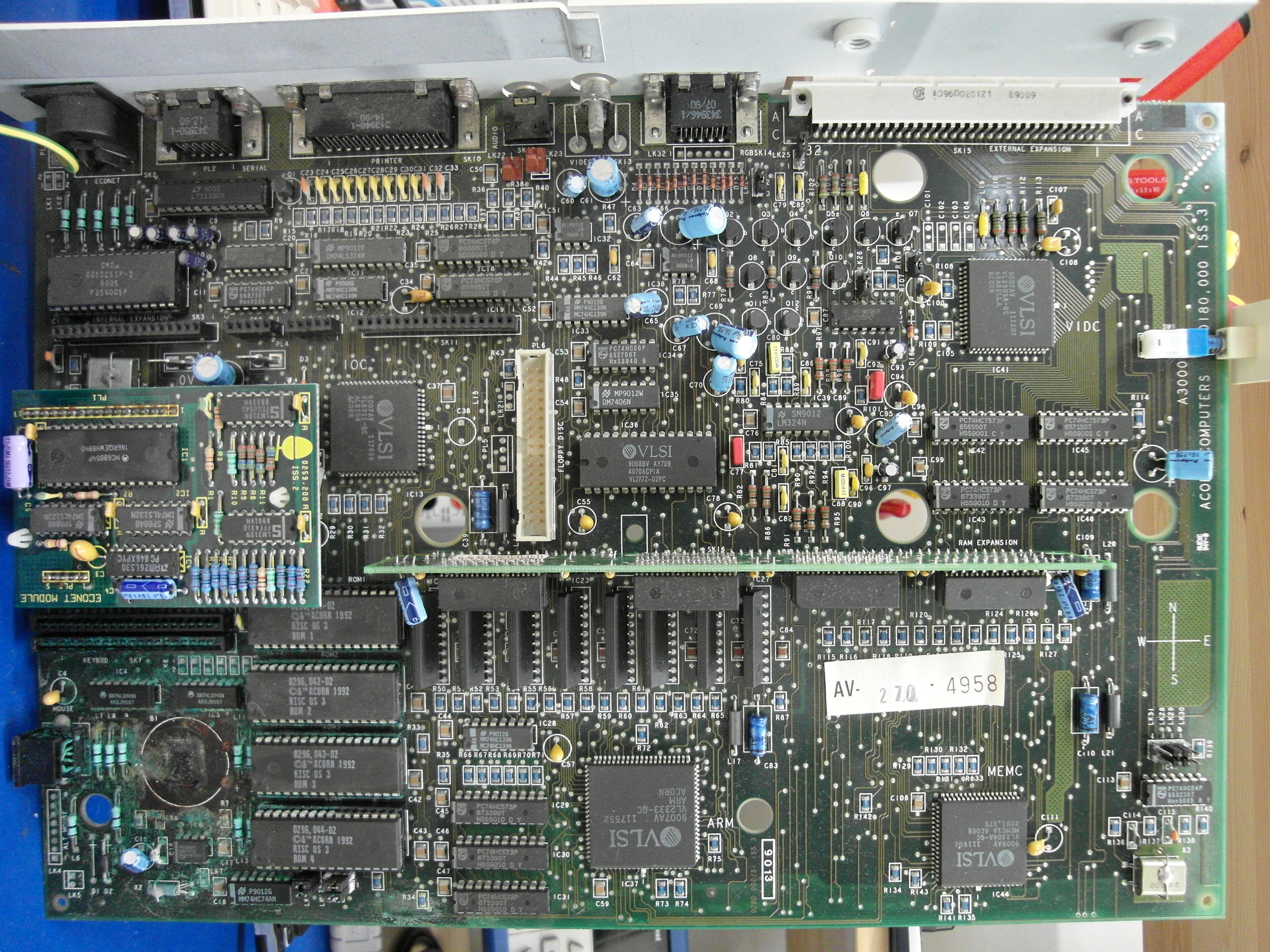 Acorn Archimedes A3000 Main PCB. Note the extensive corrosion from the battery leakage.